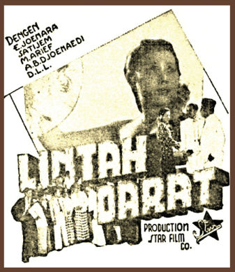 This is the film poster for the 1941 film Lintah Darat.